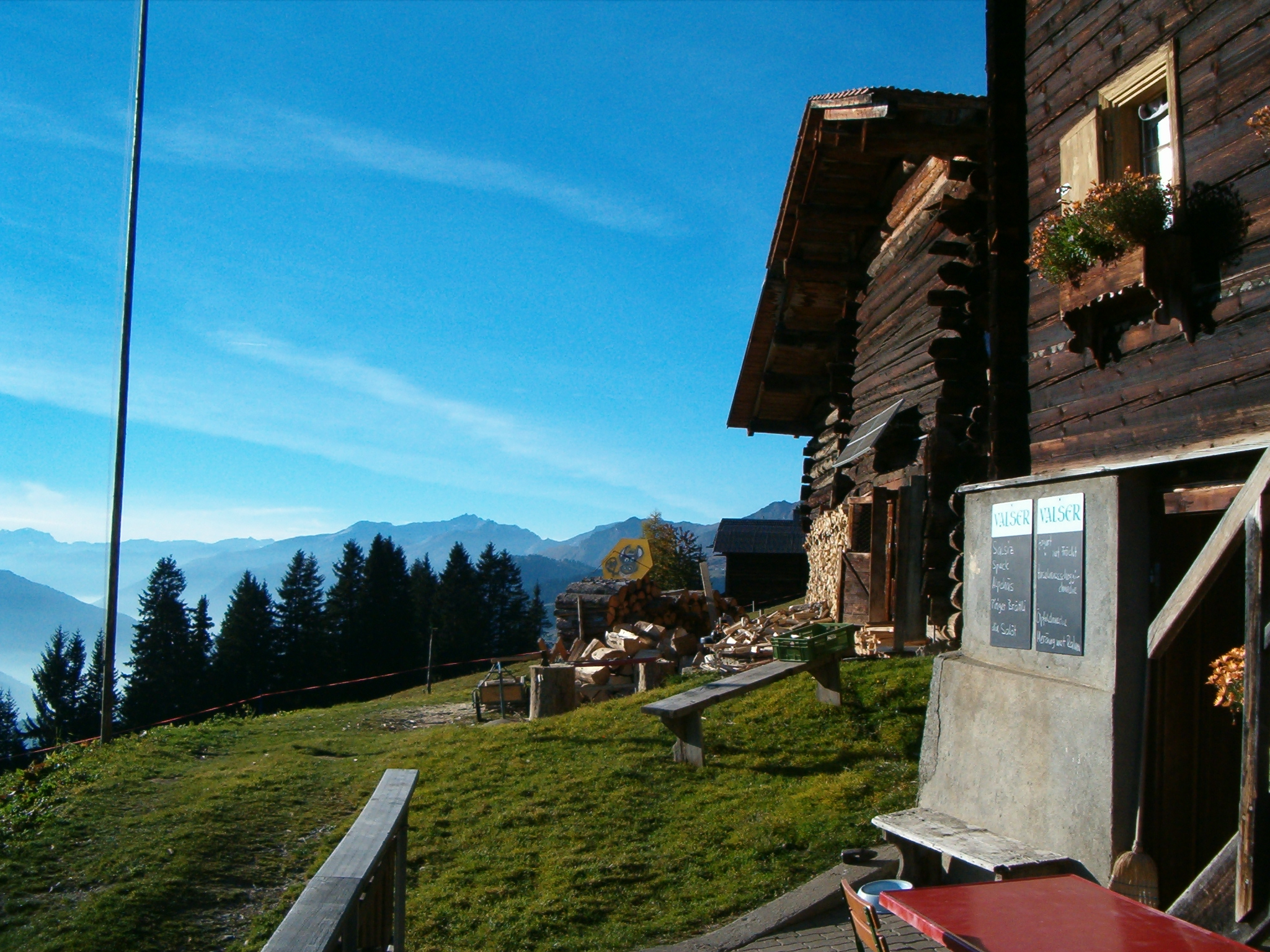 Pirigen at Langwies/Switzerland